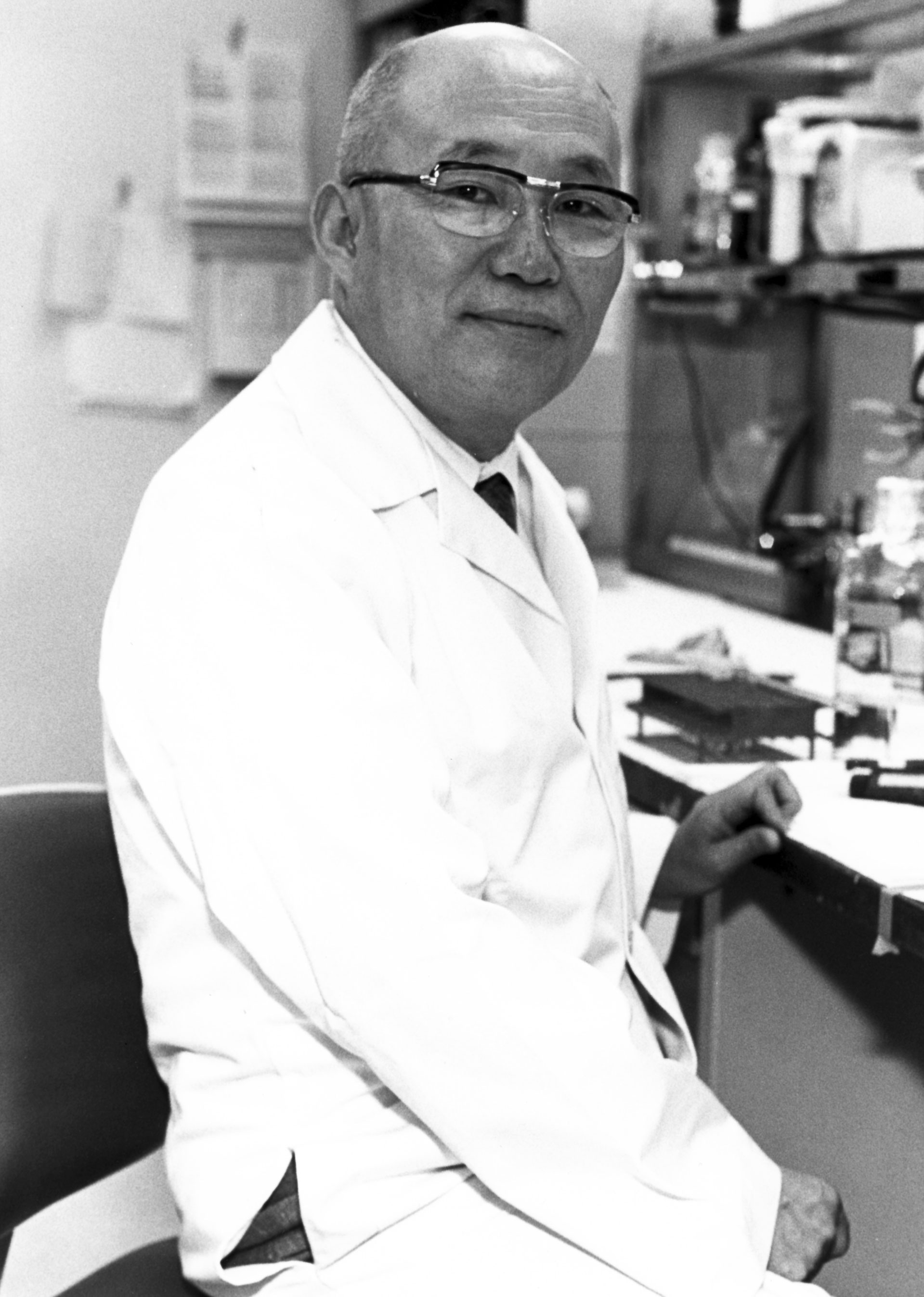 Title Nishiz, Yasutomi Description Yasutomi Nishiz Topics/Categories Historical, People Type B&W, Photo Source General Motors Cancer Research Foundation